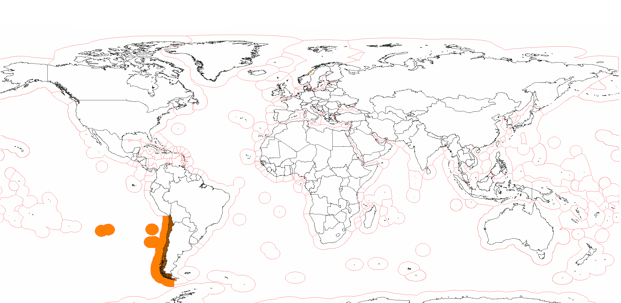 A colored map showing the exclusive economic zones of Chile.